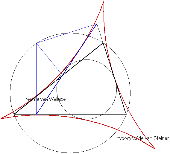 Wallace Line (Simpson Line) and Steiner curve.